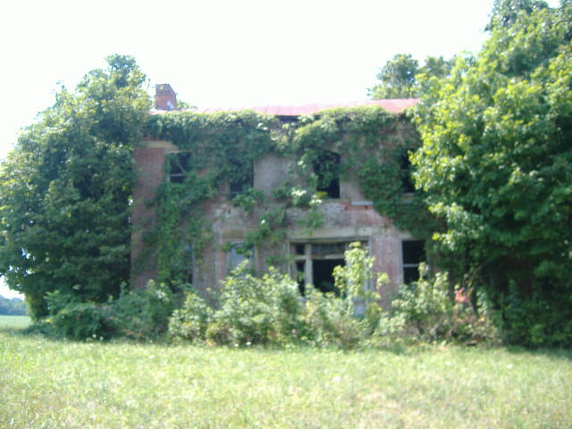 Sutton House located east of Decatur on Ohio Highway 125.